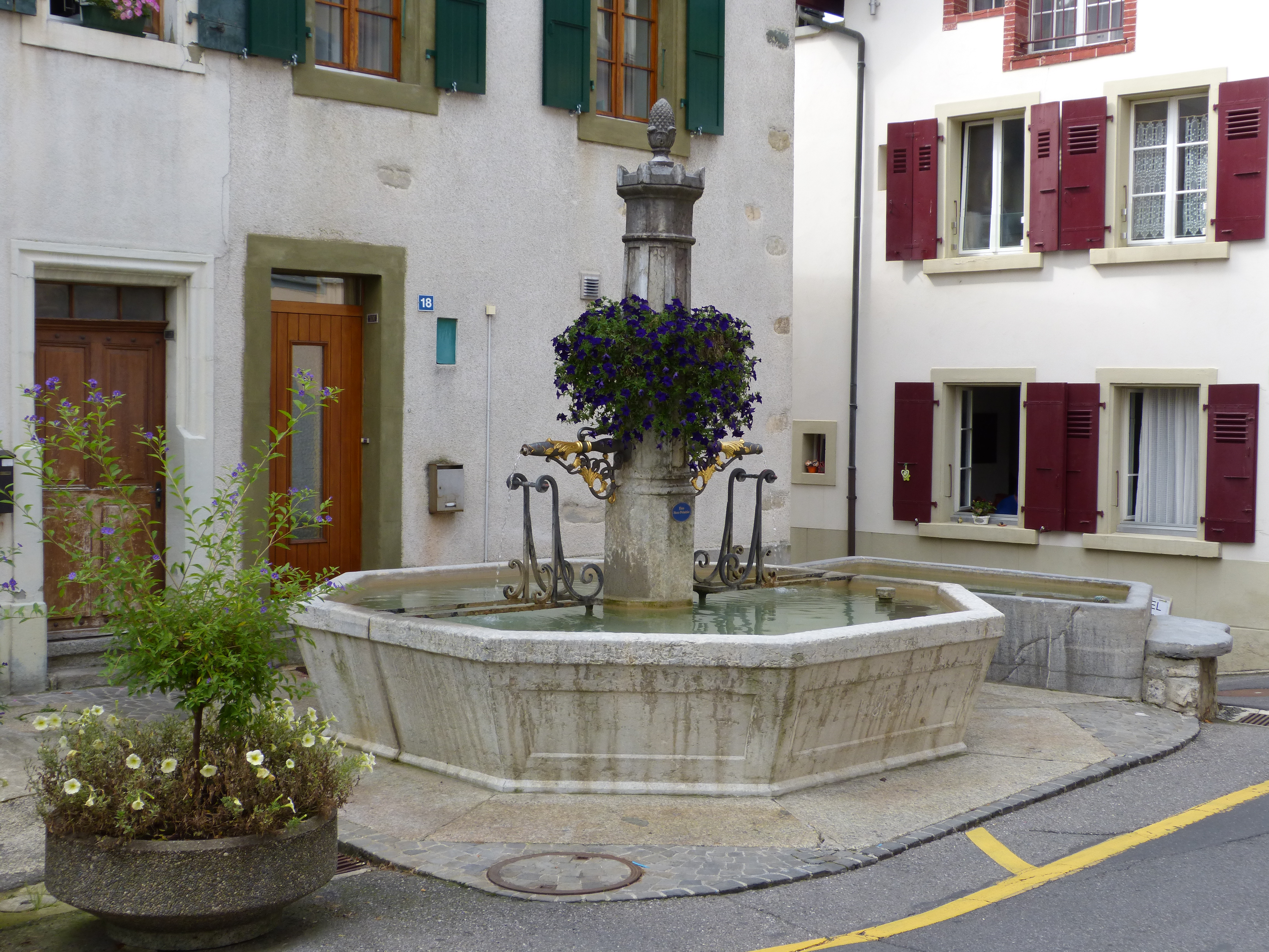 Fountains in the village of Riex.